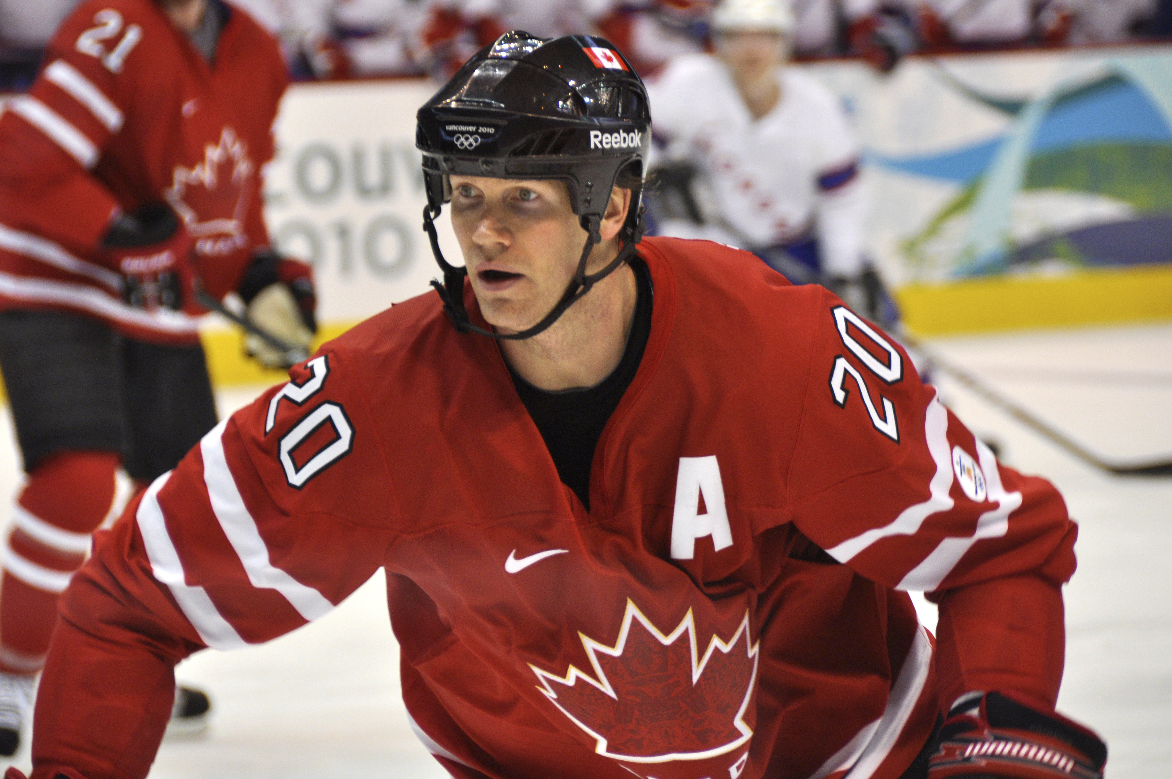 Chris Pronger in action with Team Canada against Norway at the 2010 Winter Olympics.